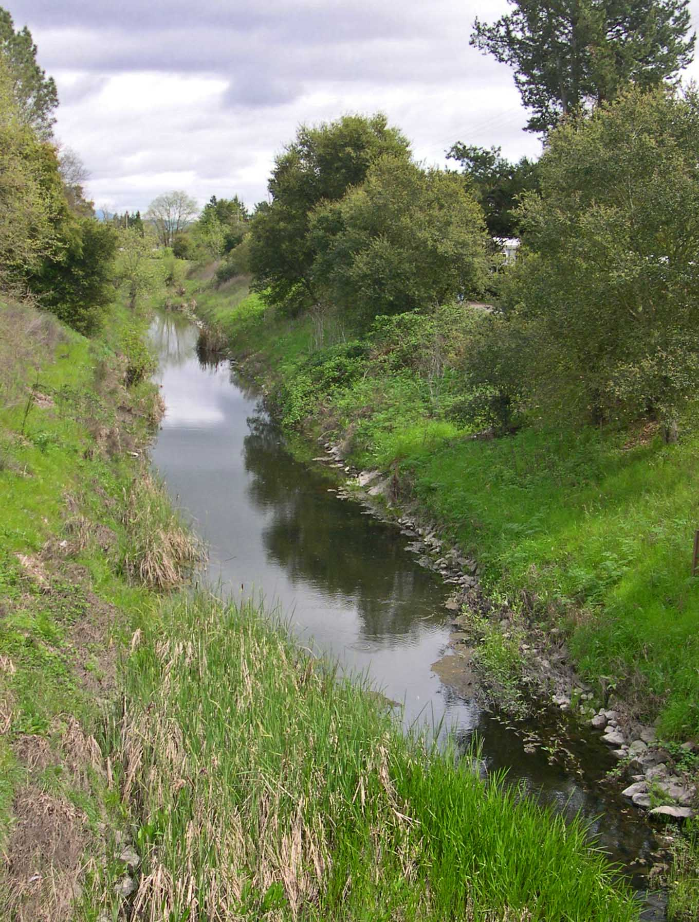 subject:piner creek somewhat above confluence w santa rosa creek, looking upstream, sonoma county, calif, USA